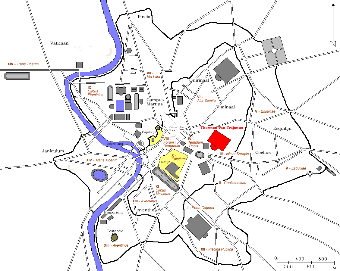 Baths of Trajan on a map of ancient Rome around 300 AD